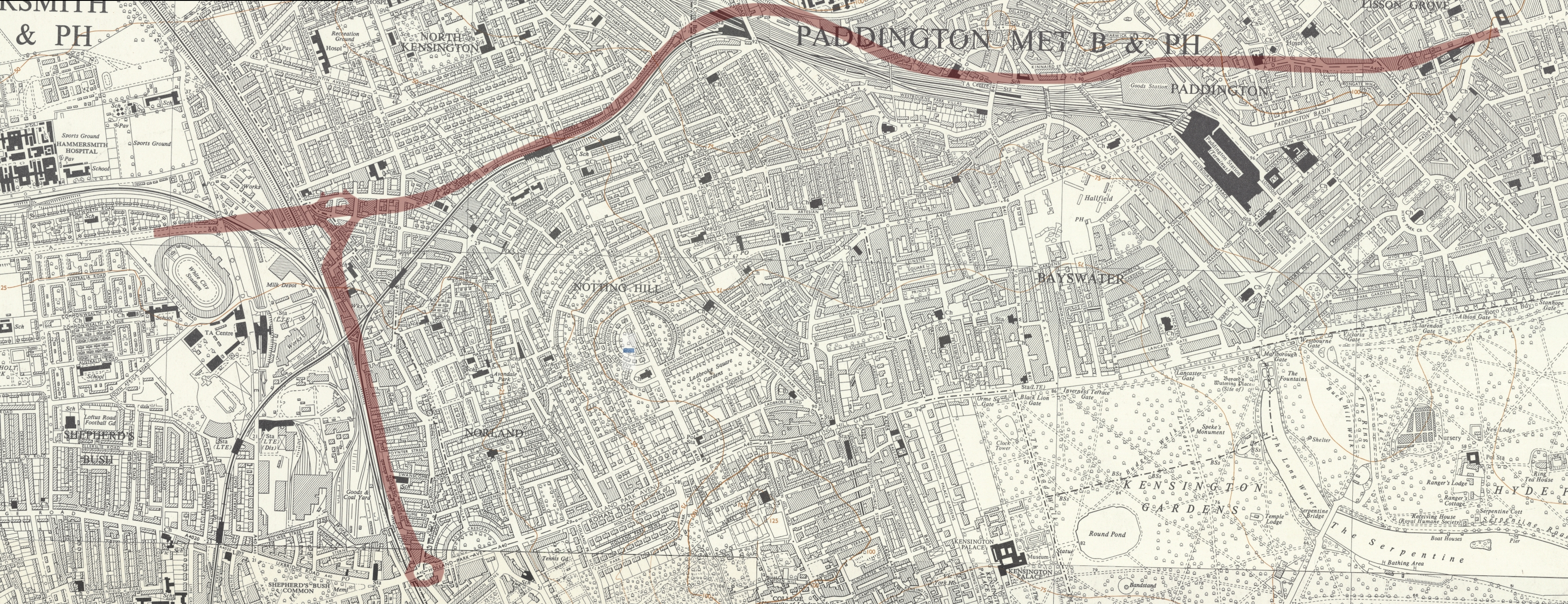 Overlay of route of Westway, West Cross Route and Marylebone Flyover on a 1957 Ordnance Survey Map, showing the areas cleared for construction of the roads in the mid 1960s.